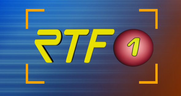 Logo of German TV-Station "RTF.1-Regionalfernsehen"